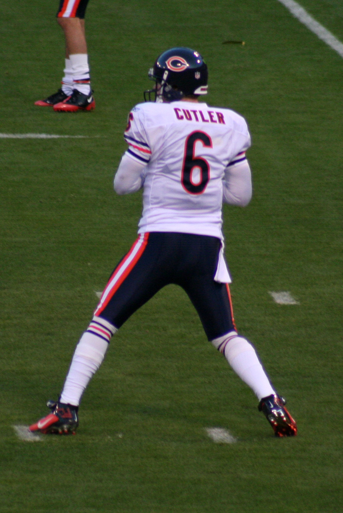 Jay Cutler of the Chicago Bears before a game against the San Francisco 49ers